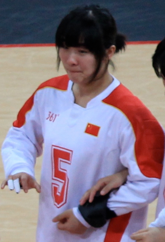 Fan Feifei